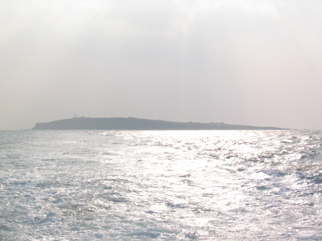 View of Mara Island (Mara-do)